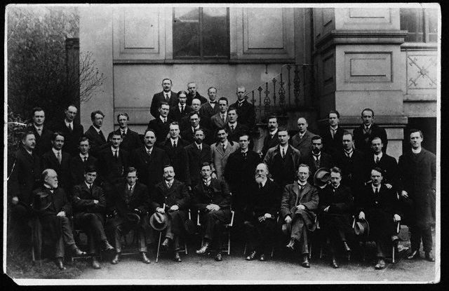 Photo of the First Dáil Éireann taken at the Mansion House on 10 April 1919. Pictured are: First row, left to right: Laurence Ginnell, Michael Collins, Cathal Brugha, Arthur Griffith, Éamon de Valera, Count Plunkett, Eoin MacNeill, W. T. Cosgrave, Ernest Blythe Second row, left to right: P. J. Moloney, Terence MacSwiney, Richard Mulcahy, Joseph O'Doherty, Seán O'Mahony, James Dolan, Joseph McGuinness, Patrick O'Keeffe, Michael Staines, Joseph McGrath, Bryan Cusack, Liam de Róiste, Michael Colivet, Michael O'Flanagan Third row, left to right:Peter J. Ward, Alexander McCabe, Desmond FitzGerald, Joseph Sweeney, Richard Hayes, Con Collins, Pádraic Ó Máille, James O'Mara Fourth row, left to right: Joseph MacDonagh, Seán MacEntee Fifth row, left to right: Piaras Béaslaí, Robert Barton, Paul Galligan Sixth row, left to right: Philip Shanahan, Seán Etchingham